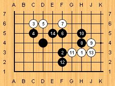 image based on algebraic notation on page 136 of File:Smith - The game of go.djvu